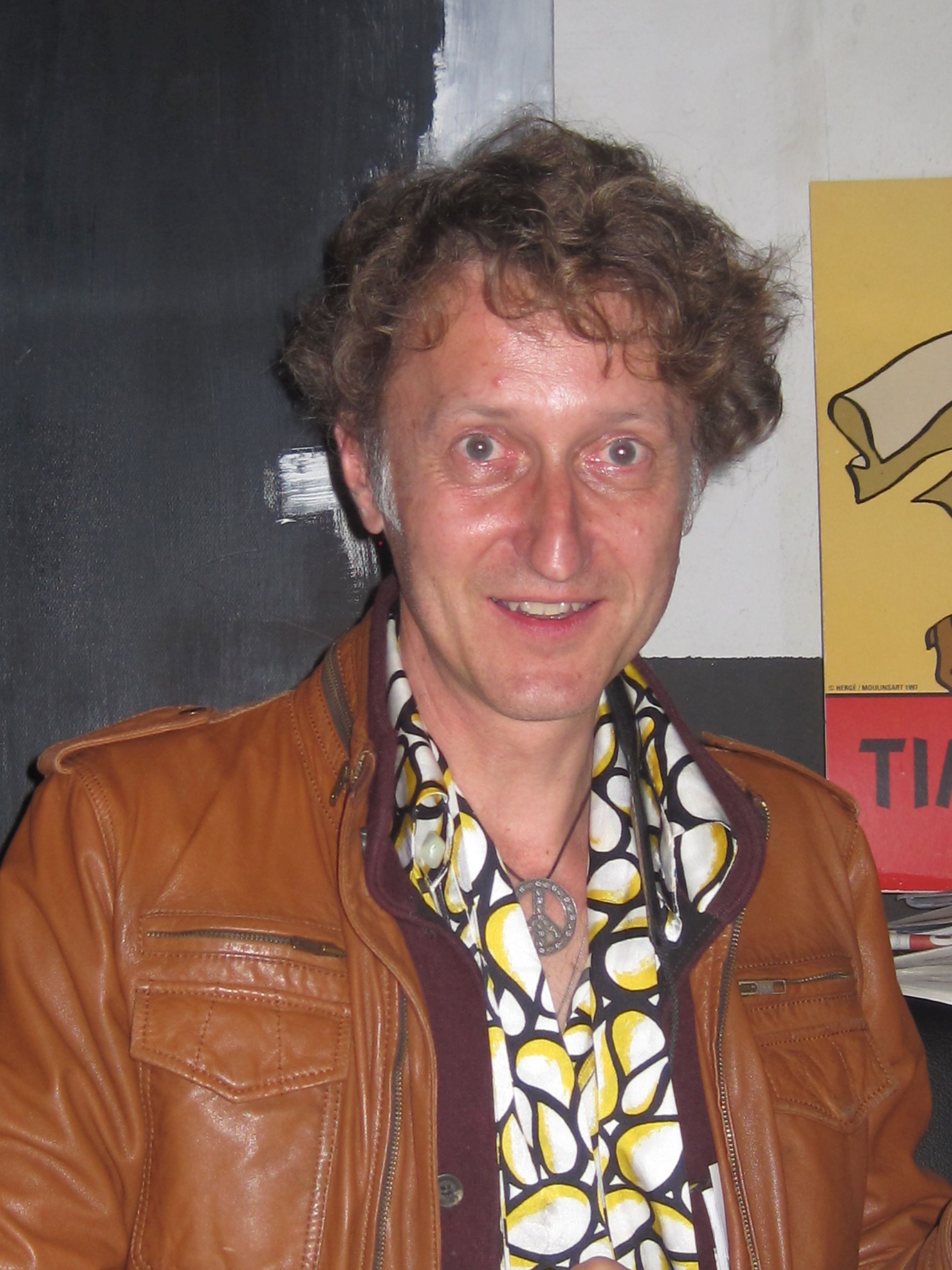 jazz saxophonist and bandleader Stephan-Max Wirth, Marburg 2015